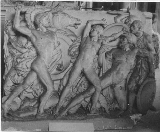 Mezence wounded, preserved by his intrepid son Lausos, first prize of the Prix de Rome in 1859 by Louis-Léon Cugnot. Ecole Nationale Supérieure des Beaux-Arts, Paris.